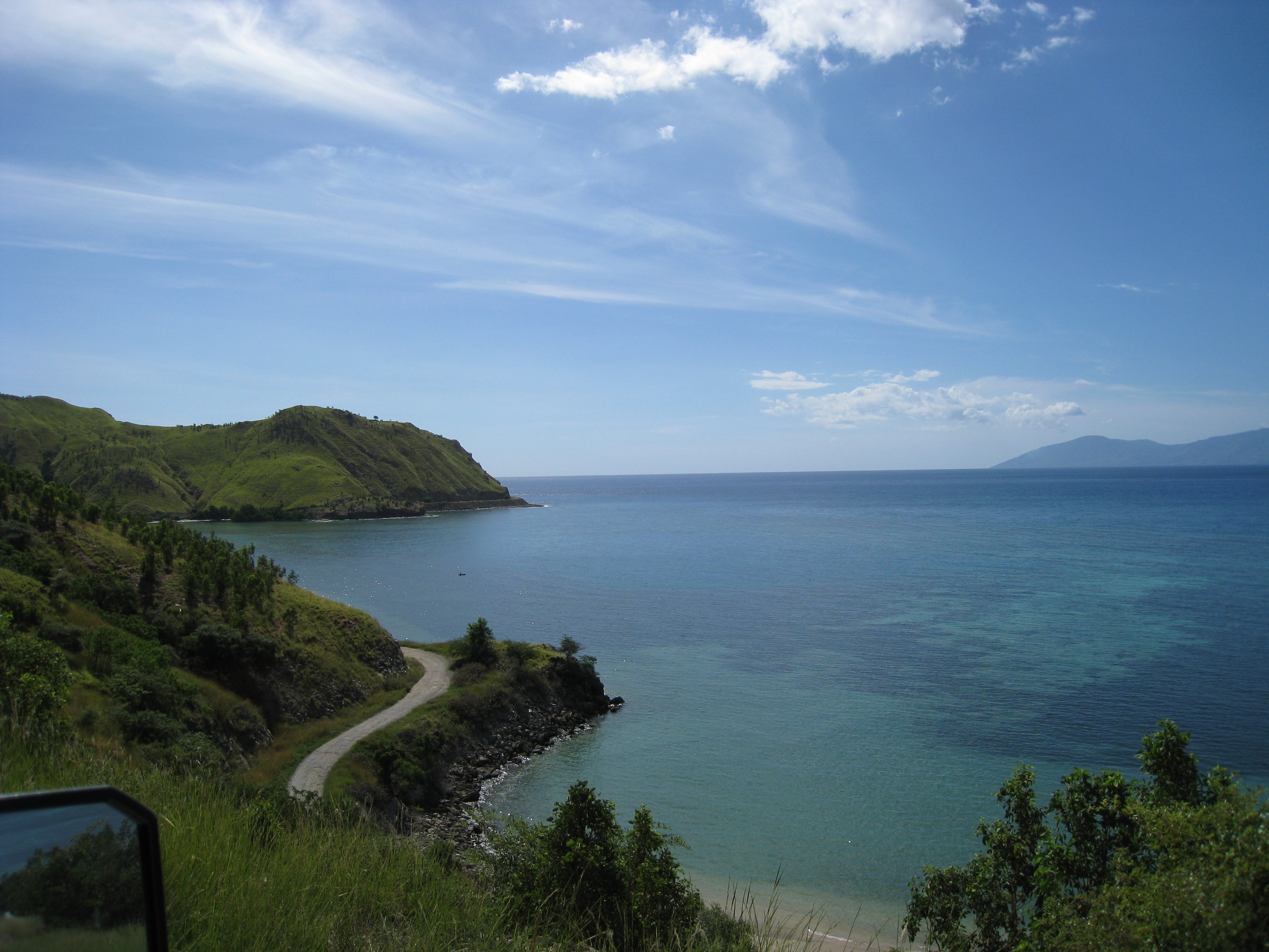 Coastline near Metinaro, East Timor